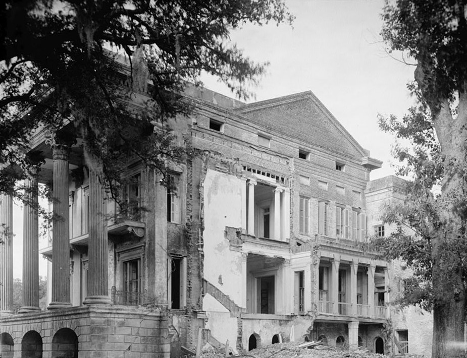 Belle Grove, White Castle vicinity, Iberville Parish, LA. VIEW OF REAR - LOOKING NORTH.